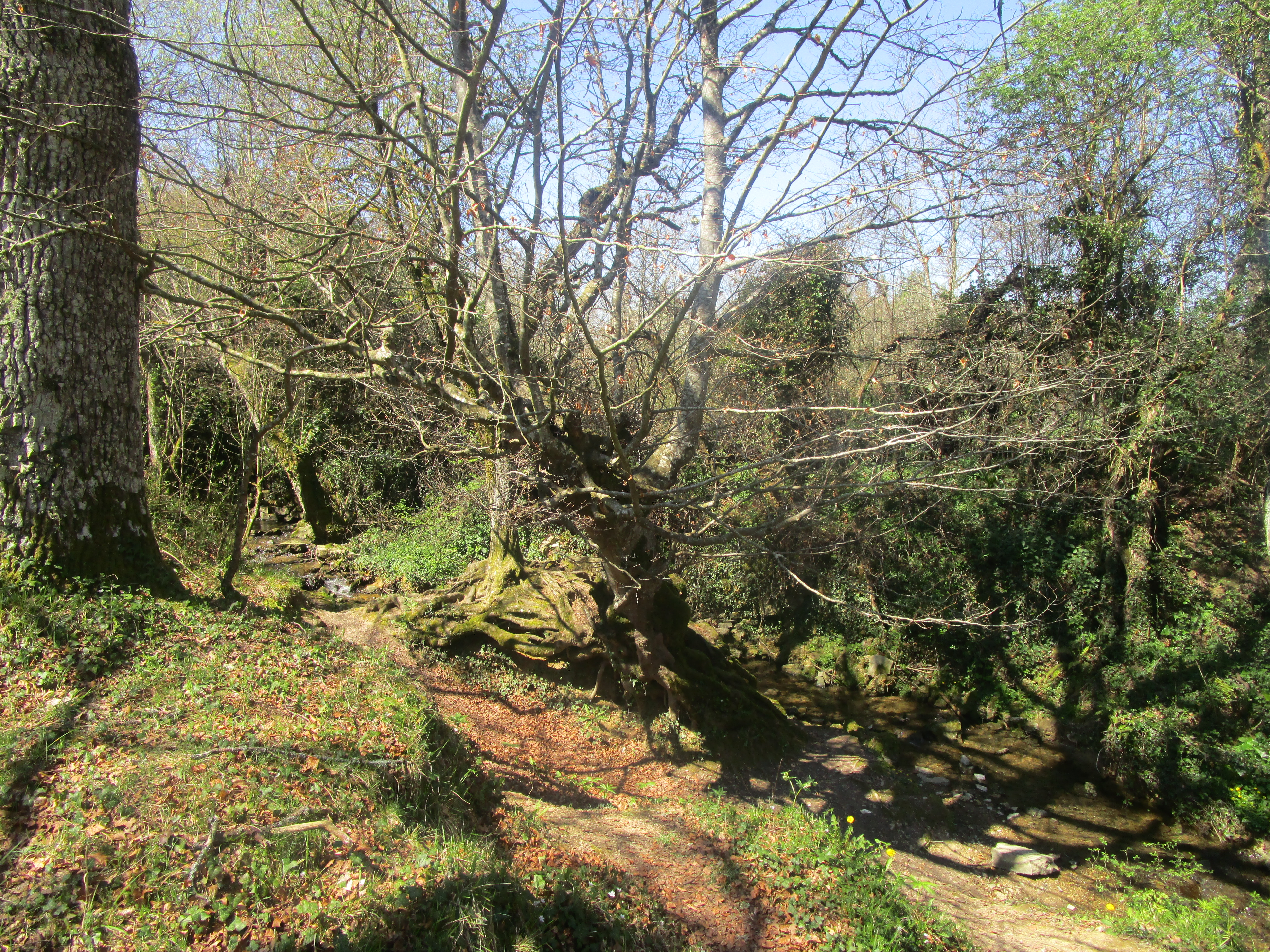 Tree by Izarra stream (near Izarra swimming pool and sports facilties), Urkabustaiz, Álava-Araba, Basque Country, Spain.